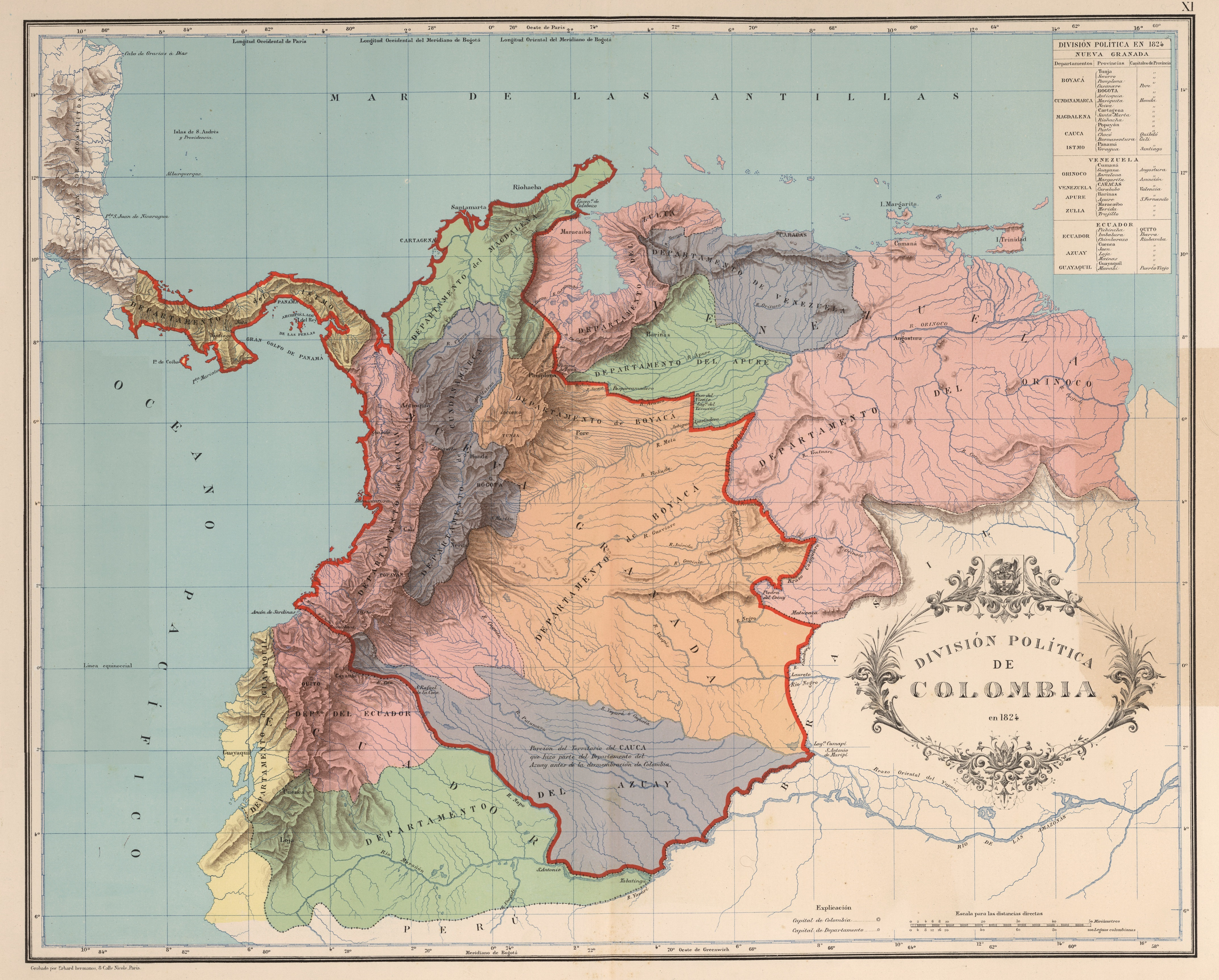 Political division of (Greater) Colombia in 1824. Map XI of the Geographic and Historic Atlas of the Republic of Colombia, 1890.